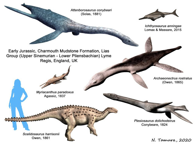 Vertebrate fauna of the Charmouth Mudstone Formation of England, UK Type Horizon and Locality: Early Jurassic, Charmouth Mudstone Formation, Lias Group (Late Sinemurian - Early Pliensbachian) Lyme Regis, England, UK The Charmouth Mudstone Formation in Dorset, England, is known from several fossils of marine reptiles. It contains some remains of dinosaurs, including Scelidosaurus and an unamed tetanuran theropod. Fish include the bizarre chimaerid Myriacanthus. Represented here: Archaeonectrus rostratus (Owen, 1865), a short-necked plesiosaur Attenborosaurus conybeari (Solas, 1881), a plesiosaur named after Sir David Attenborough Ichthyosaurus anningae Lomax & Massare, 2015, a late species of Ichthyosaurus named after Mary Anning Myriacanthus paradoxus Agassiz, 1837, an odd looking ancient relative of the ratfish Plesiosaurus dolichodeirus Conybeare, 1824, the archetypal long-necked plesiosaur Scelidosaurus harrisonii Owen, 1861, a quadrupedal and facultative bipedal armored ornithischian dinosaur April 5, 2020